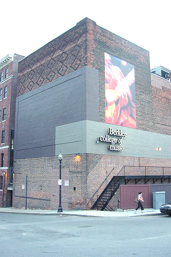 Berklee School of Music Building at Boylston Street in Boston, Massachusetts.